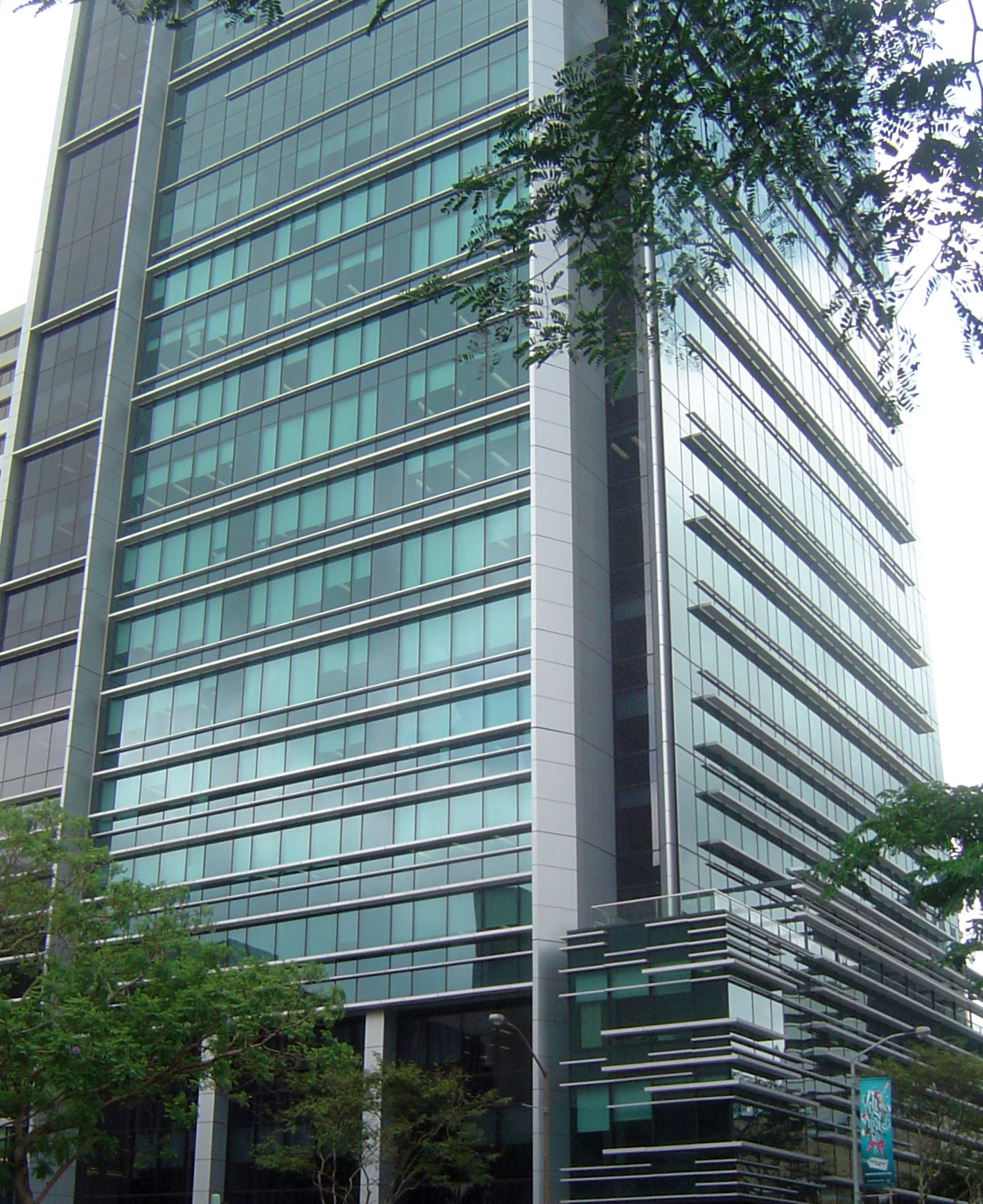 Lower floors of 275 George Street a high-rise skyscraper in Brisbane, Queensland, Australia